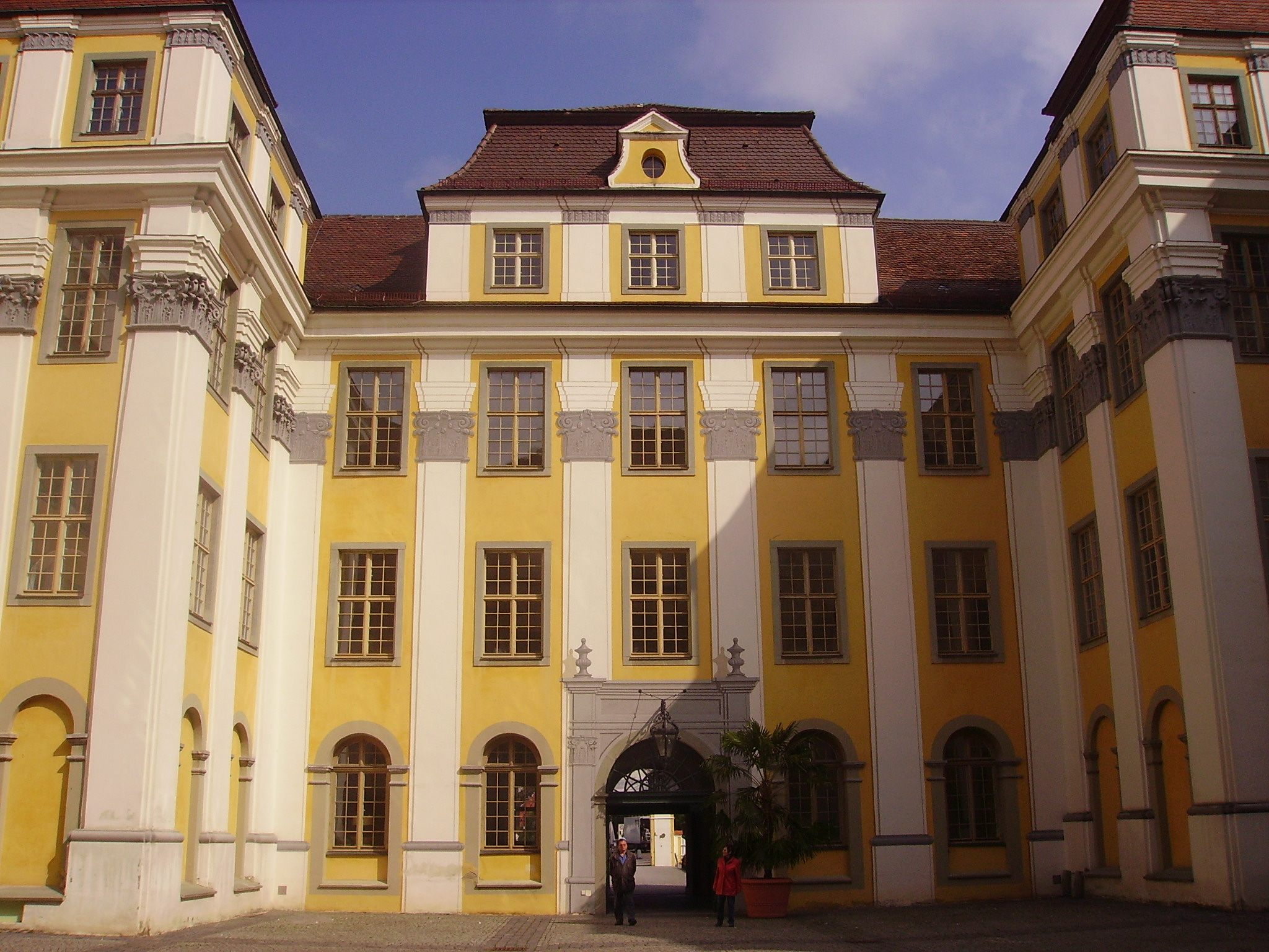 Coutyard of the New Palace, Tettnang